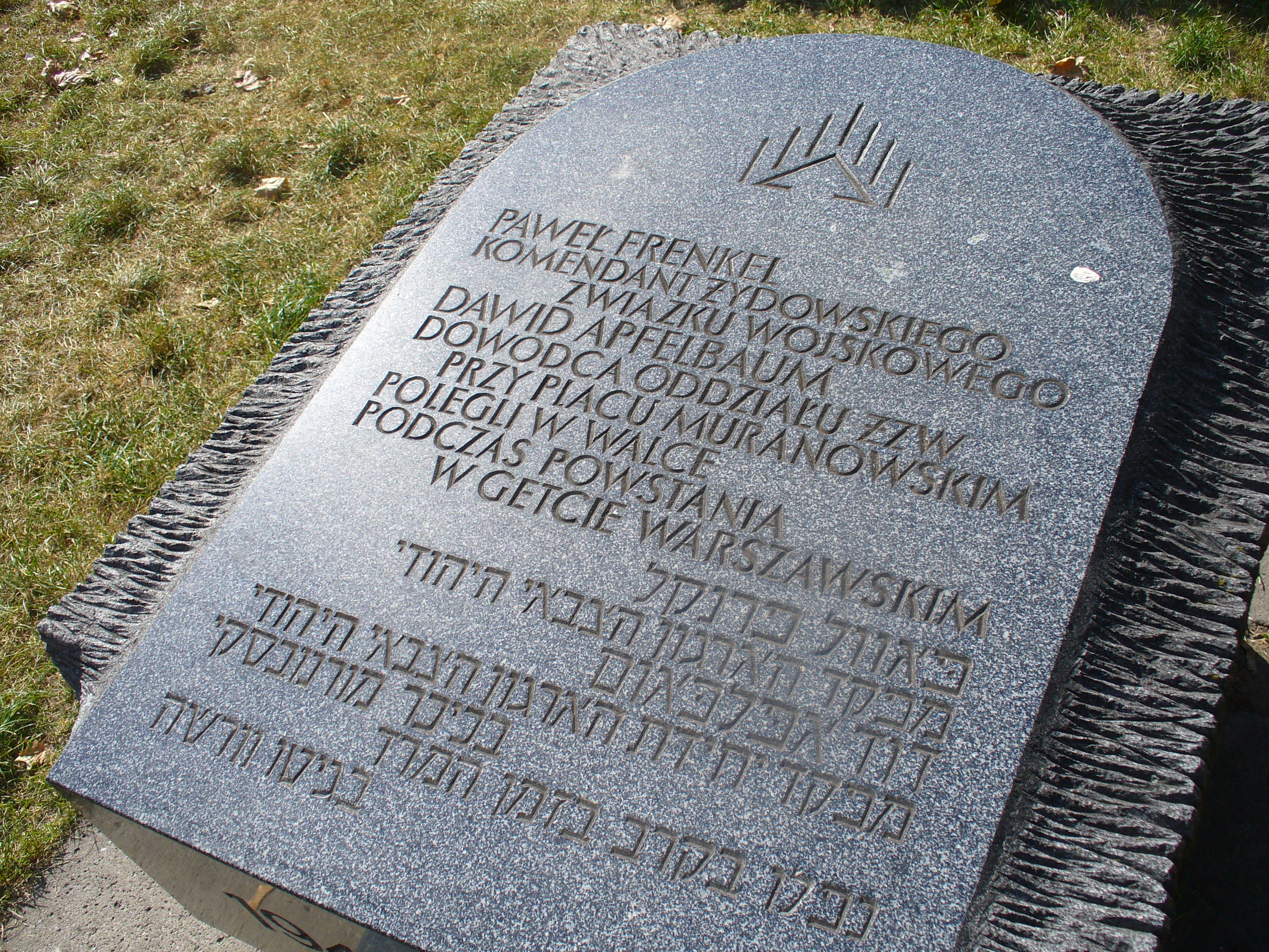 Memorial of ŻZW commanders Paweł Frenkel and Dawid Apfelbaum Stanislawa Dubois st. Warsaw. Poland